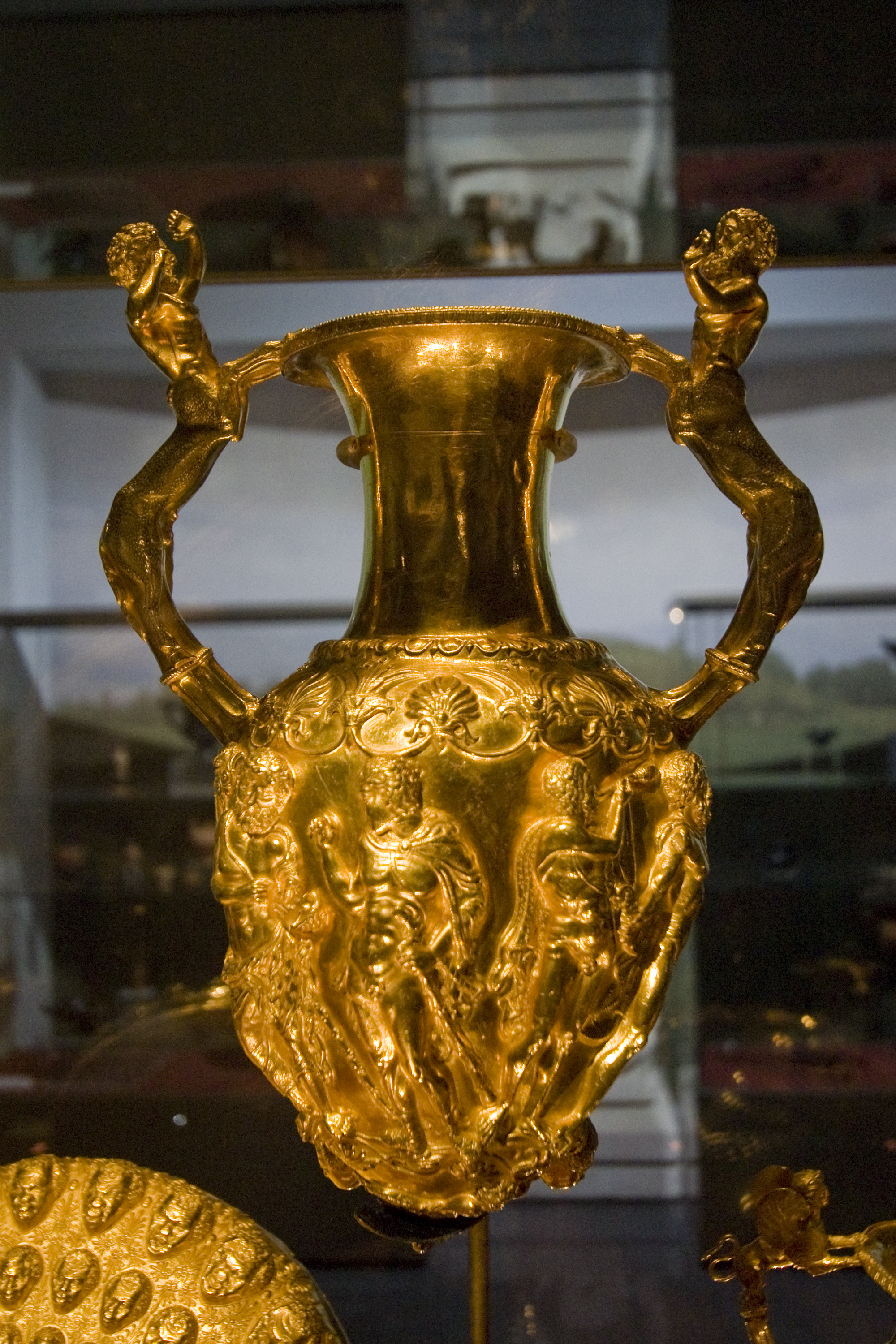 The Panagyurishte Treasure golden amphora. The big amphora has handles shaped as centaurs, and the openings for pouring wine represent Negro heads. Inbetween those two opinings, the amphora is decorated with a scene of Hercules fighting a snake.